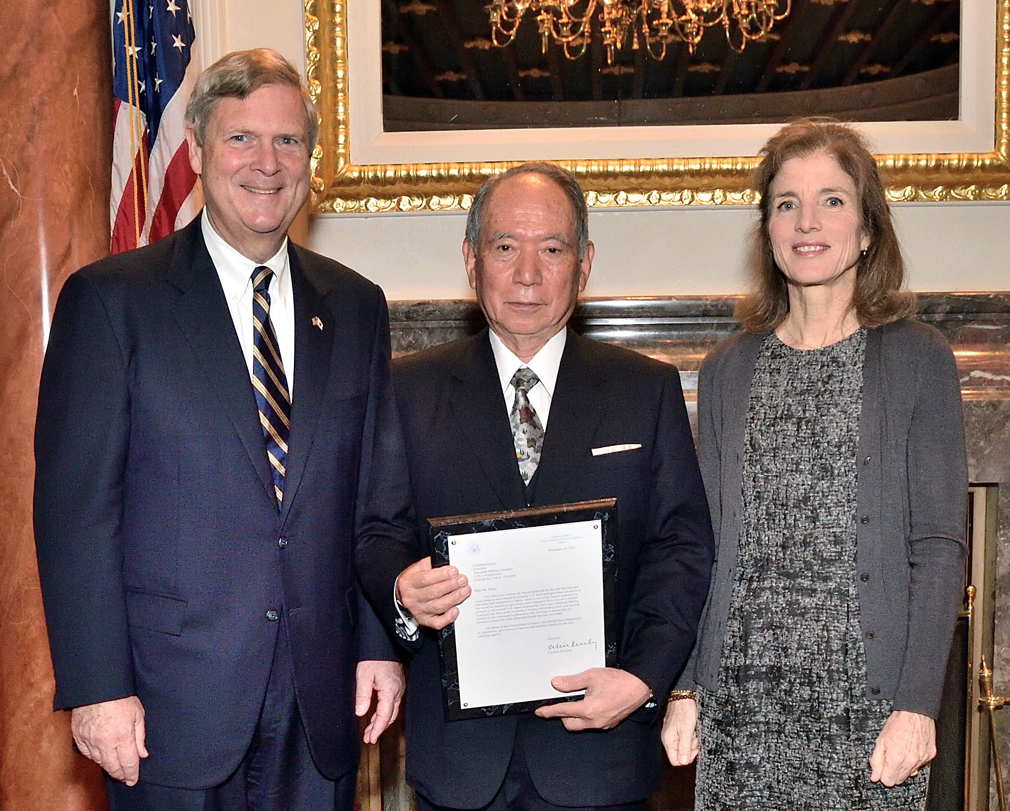 Tom Vilsack, Secretary of Agriculture, and Caroline Kennedy, Ambassador to Japan, inducted Nobuhiro Iijima, President of the Yamazaki Baking Co., Ltd., into the U.S. - Japan Agricultural Trade Hall of Fame at the Residence of the Ambassador in Tokyo on November 20, 2015.